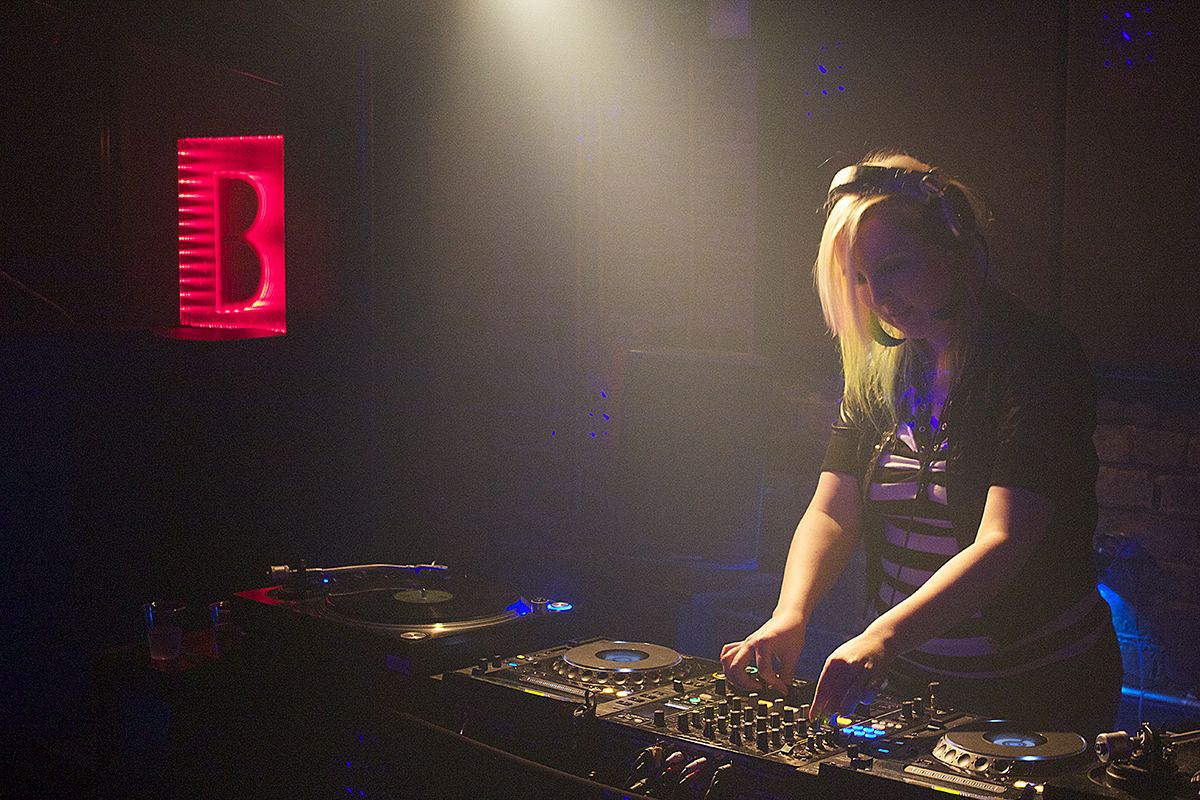 Cherushii performing at Run the Length of Your Wildness, a monthly dance music party co hosted by Cherushii